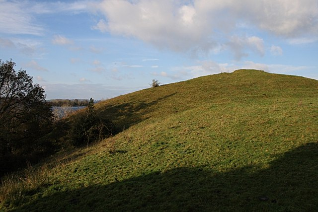 Captain's Hill. Named for being the site of a green on the old Mullingar golf course.